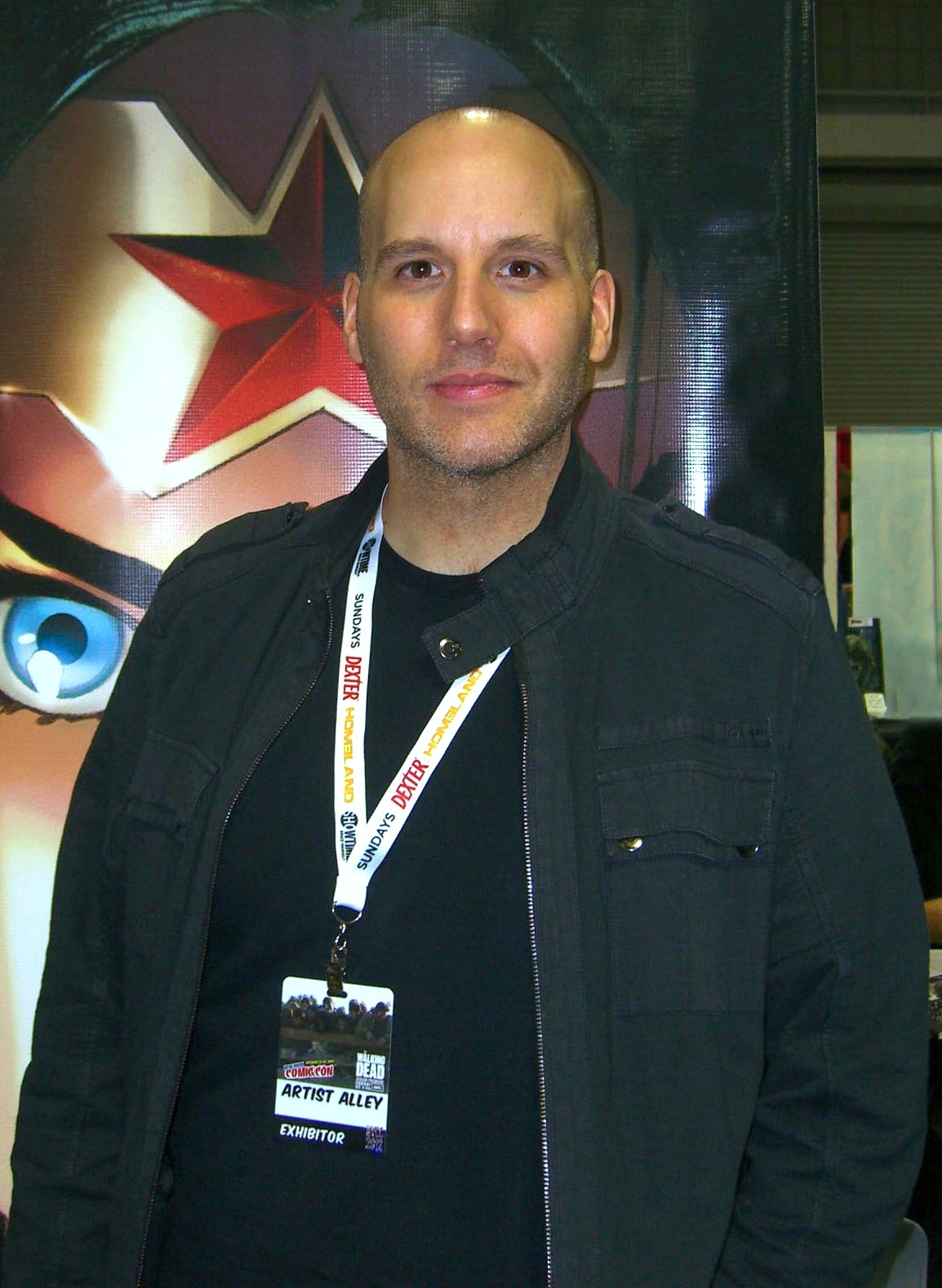 Comics creator Joshua Middleton on Day 2 of the 2012 New York Comic Con, Friday October 12, 2012 at the Jacob K. Javits Convention Center in Manhattan. This photo was created by Luigi Novi. It is not in the public domain, and use of this file outside of the licensing terms is a copyright violation.